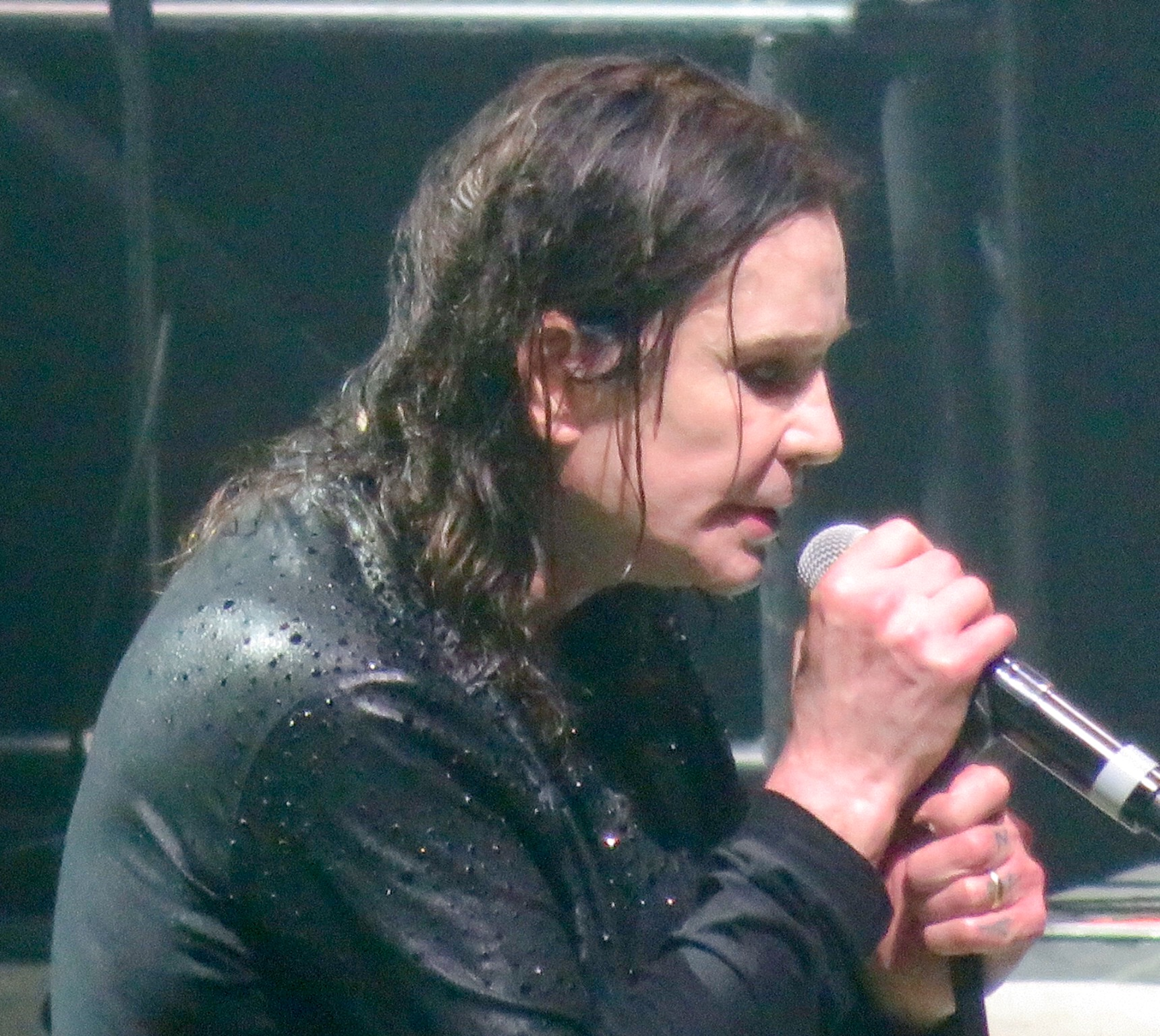 Ozzy Osboune at Black Sabbath's last ever concert, Genting Arena, Birmingham.